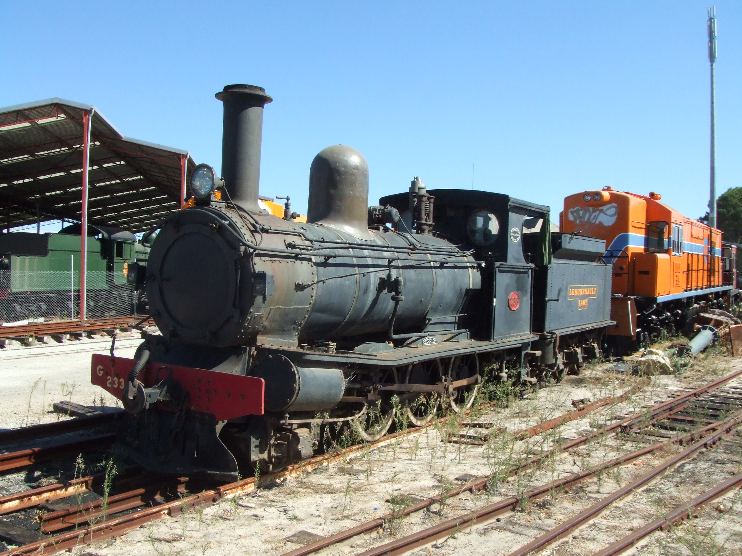 WAGR "G" 2-60 No.233 "Leschenault Lady (James Martin [South Australia] 174/1892). 4/06